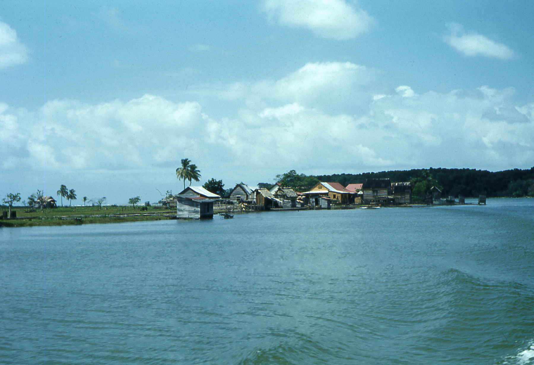 Town of Prinzapolka town viewed from Prinazpolka near its mouth on the Caribbean Sea